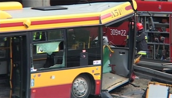 Scania OmniCity CN270UB 4x2 EB bus (#A510, reg. WM 53483) in Warsaw, Poland. Built 2007, PKS Grodzisk Mazowiecki operator.